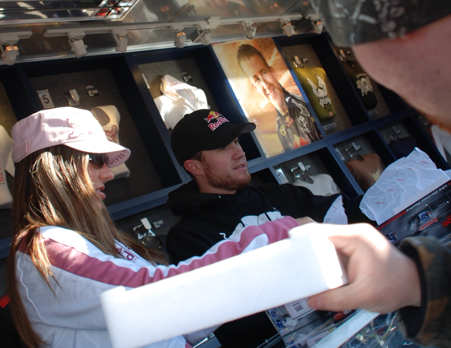 Brian Vickers during an autograph session at Martinsville Speedway.